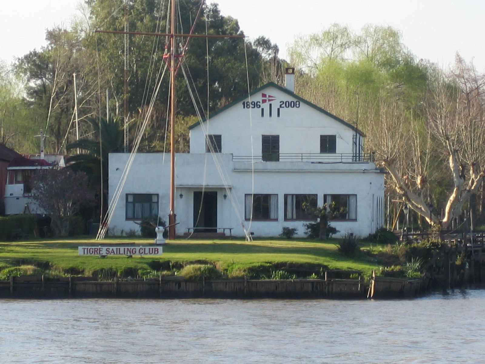 Tigre Sailing Club - El Tigre - Buenos Aires - Argentina